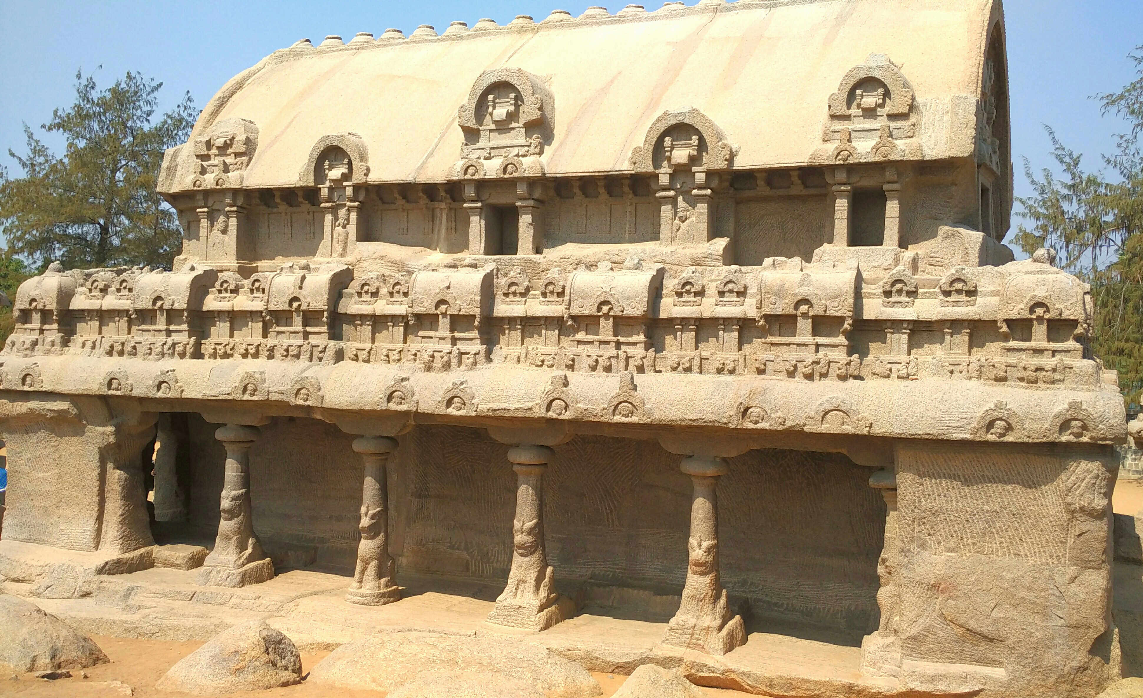 Pancha Rathas are the 7th century rock-cut monuments located in Mahabalipuram near Chennai. Each monument represents a Chariot of Pandavas of Mahabharata.